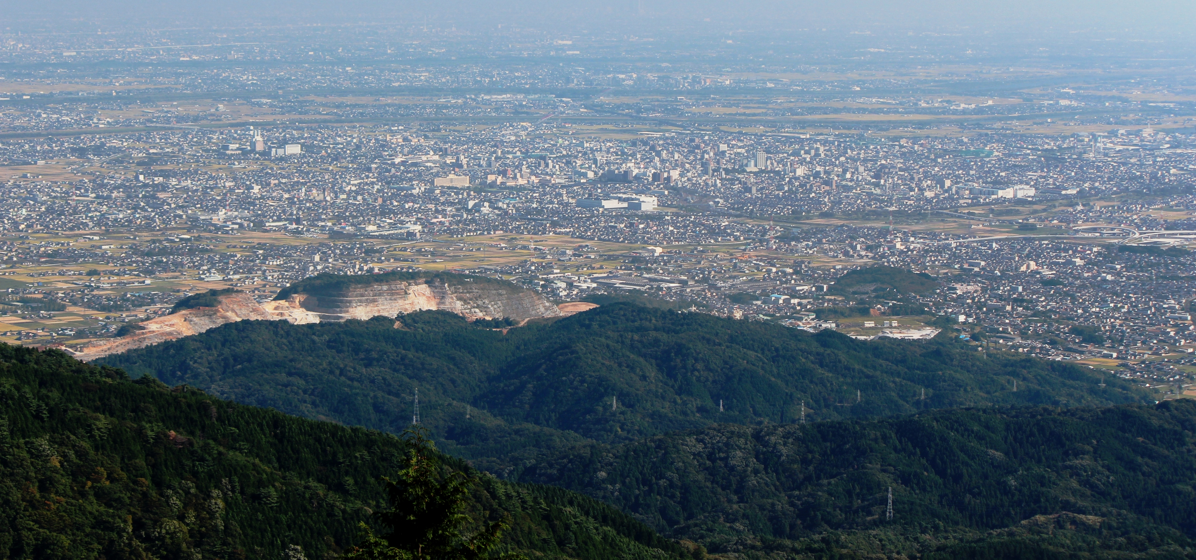 Mount Kinshō and Ōgaki, Gifu from Mount Ikeda (from Northwest)